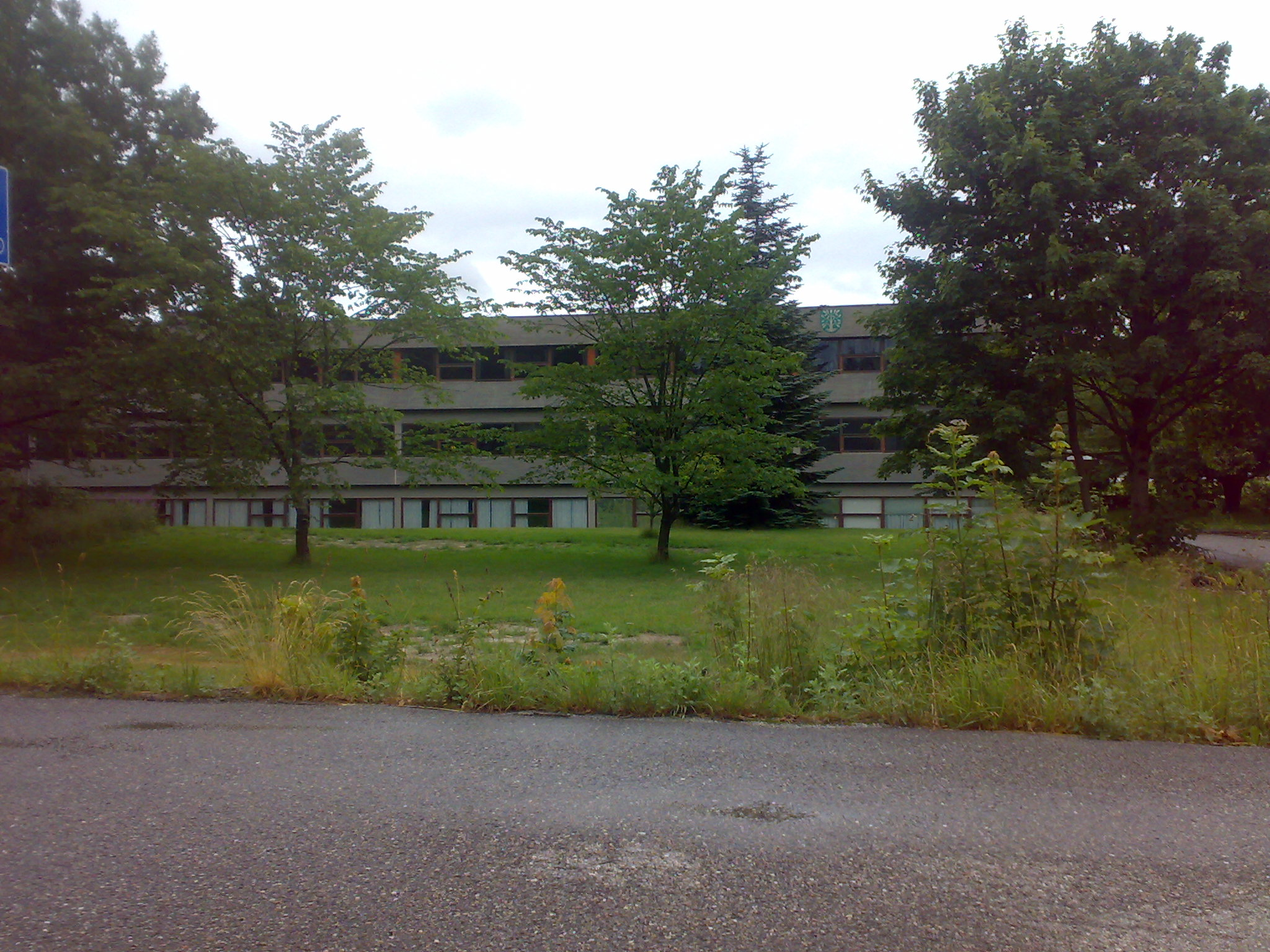 Kristiansand Katedralskole, lokalene på Gimle. kristiansand, Norway